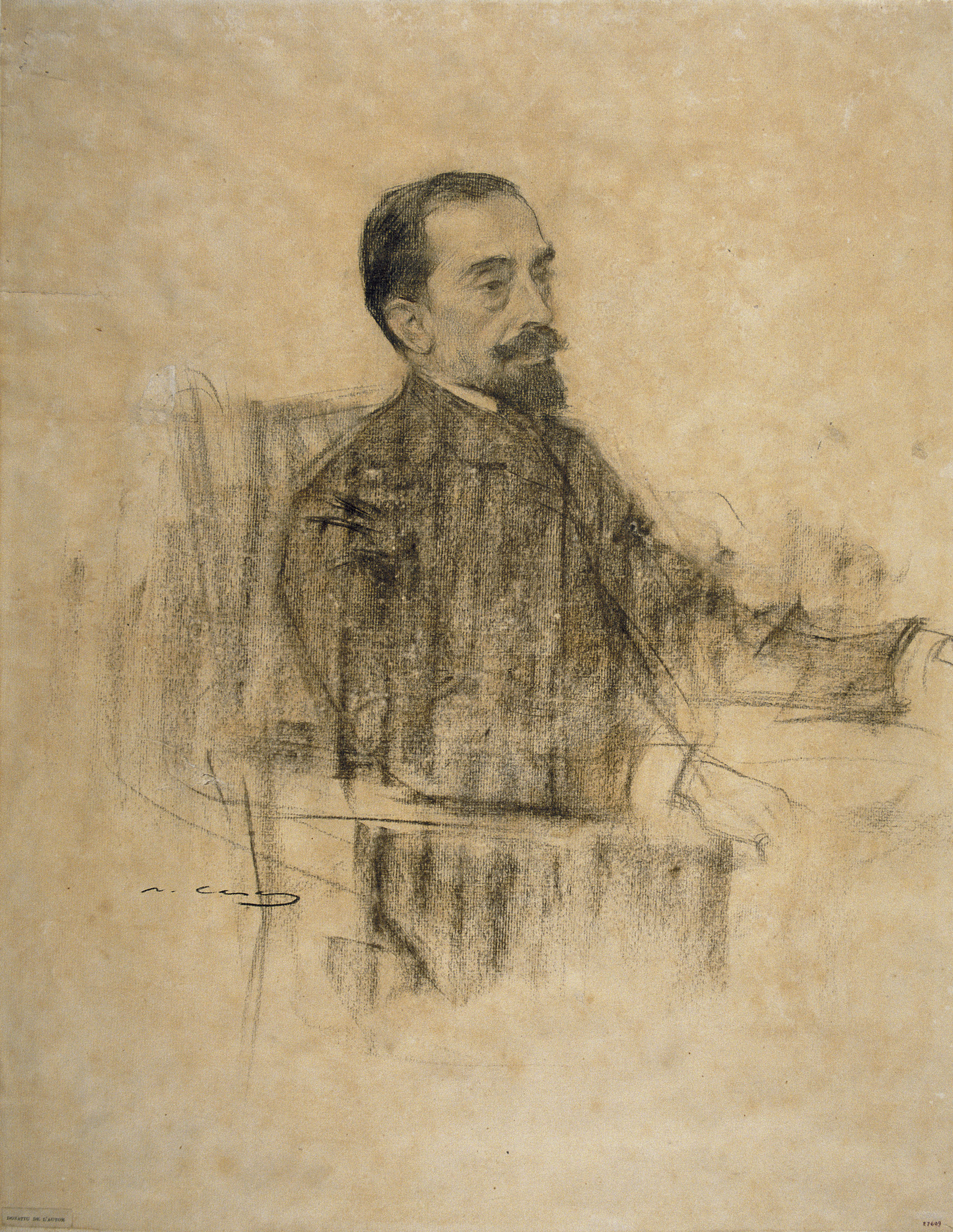 Portrait by Ramon Casas conserved at MNAC in Barcelona.